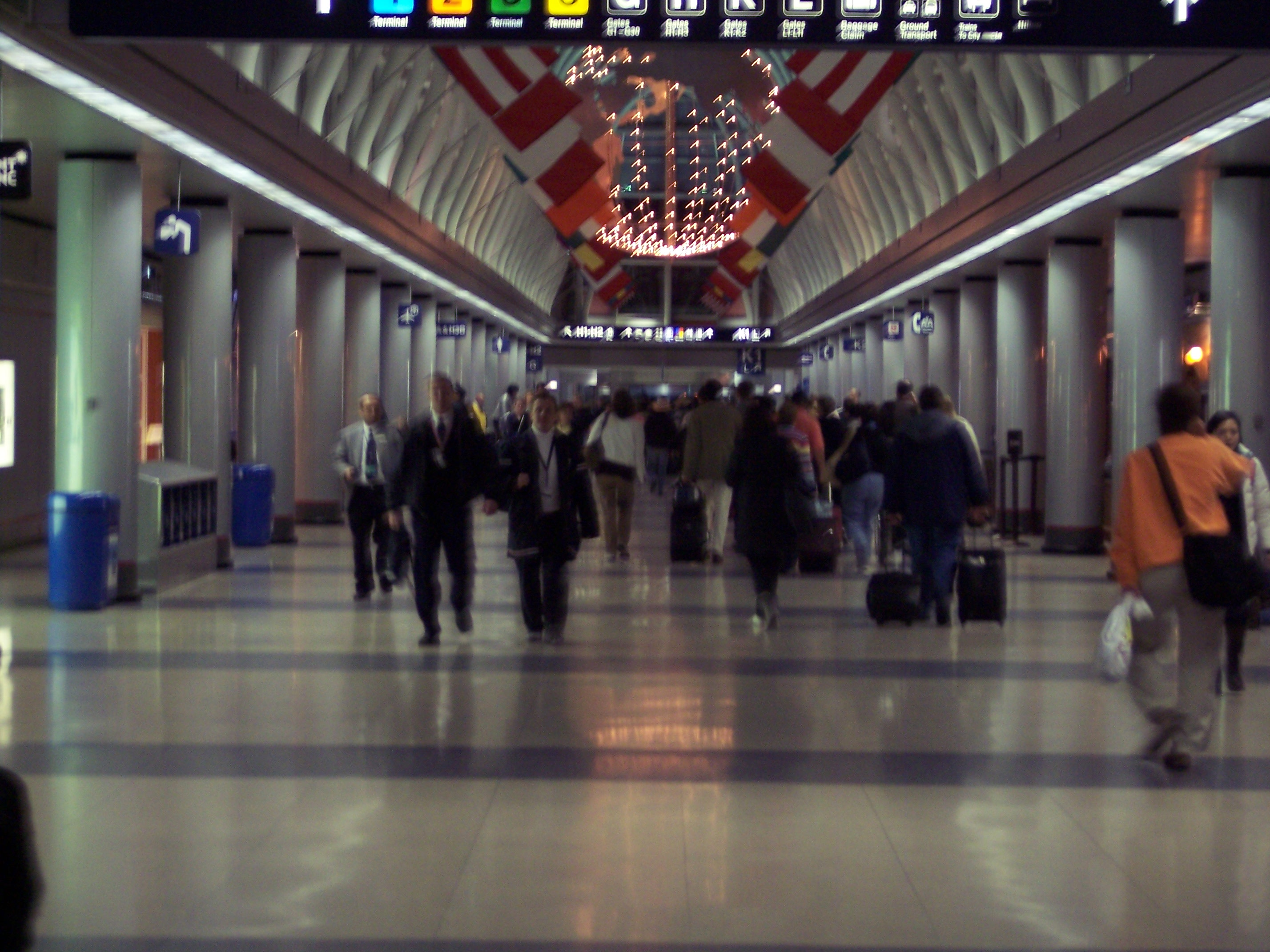 picture of American Airlines Terminal 3 globe/flags